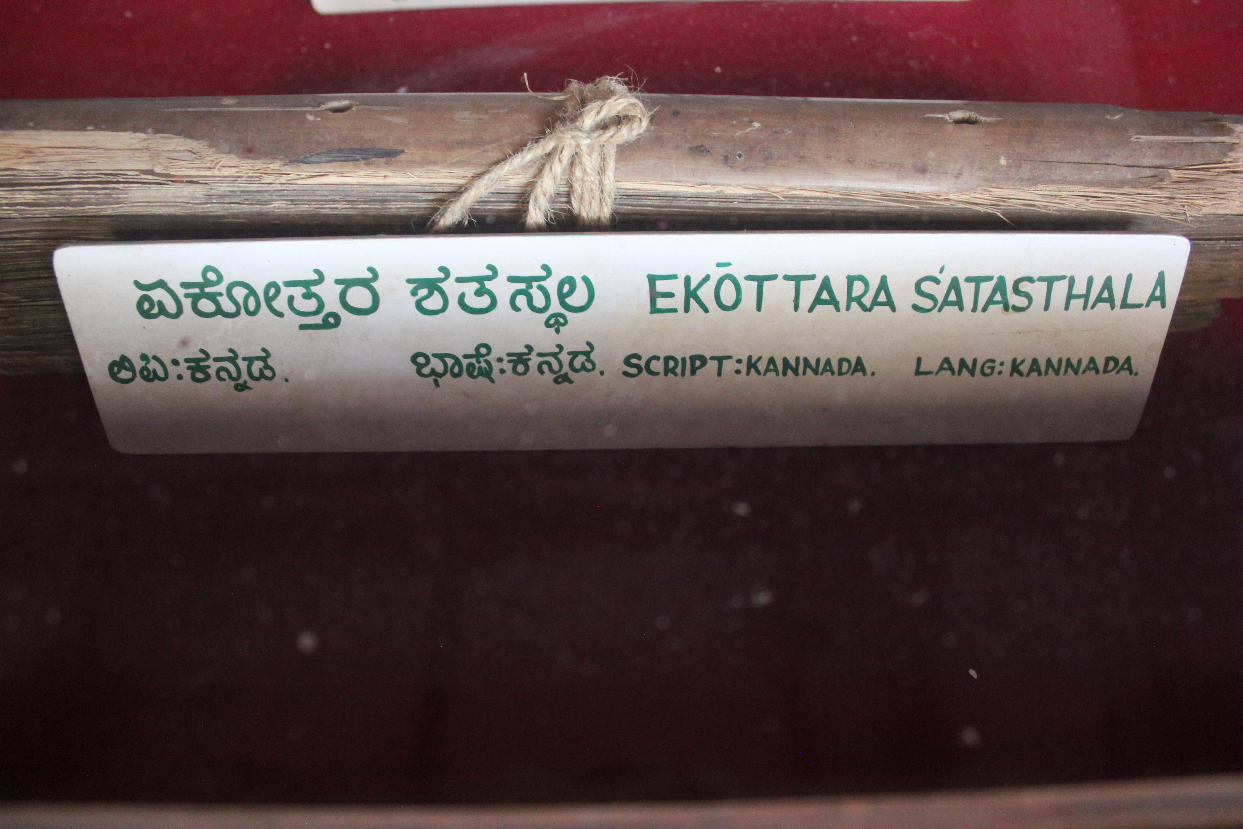 The Ekottara Satasthala (also known as Noorondu Sthala) was written by Jakkanarya (also known as Jakkanna and Jakappa) an elderly minister and Kannada writer in the court of the Vijayanagara empire king Devaraya II (c.1425=1450). He was a Virashaiva (Lingayat) by faith and was responsible for propagating the faith at that time. Photograph was taken at the Shivappa Nayaka palace and museum in Shivamogga (or Shimoga), Karnataka state, India. A medieval classic written on Talegari (palm leaf). REF: Archaeology of Hampi-Vijayanagara, Page 384, C. T. M. Kotraiah, K. M. Suresh, 2008